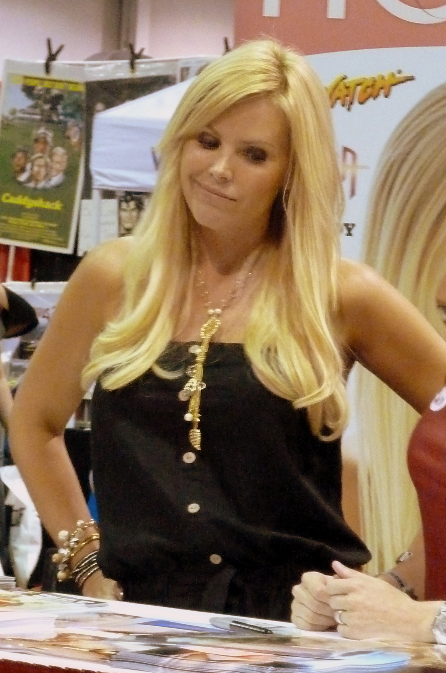 Gena Lee Nolin at 2011 Wizard World Chicago